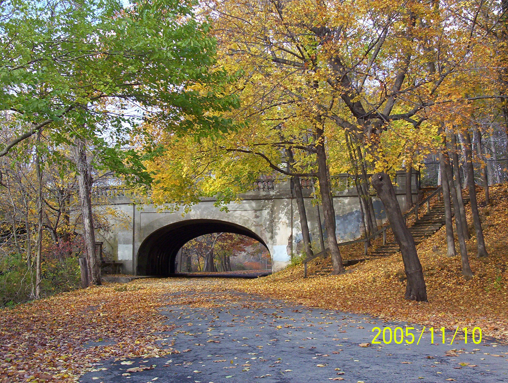 Chapel Street bridge over the West River in Edgewood Park (New Haven, Conn.)